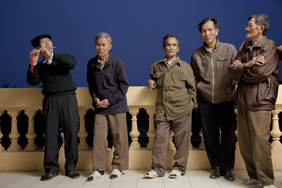 Vietnamese Veterans in the Village of Friendship, Từ Liêm, Hanoi, Vietnam